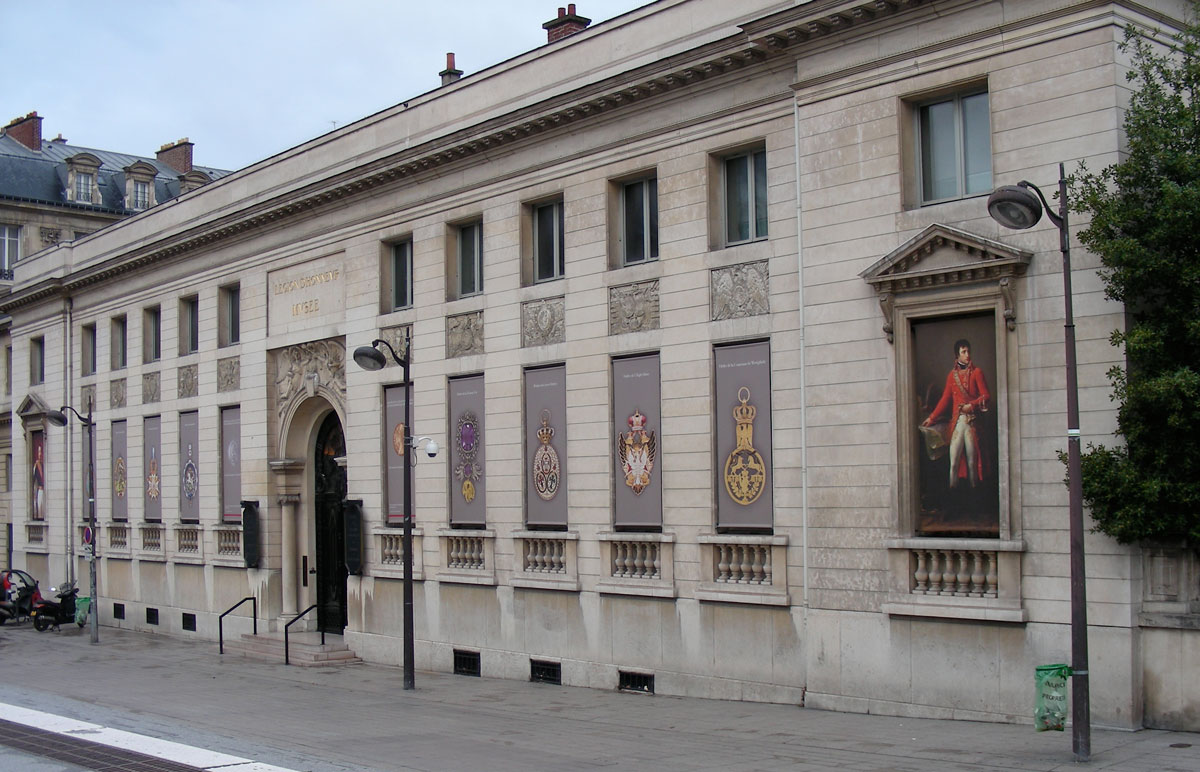 French Museum of the Order of the Légion d'Honneur